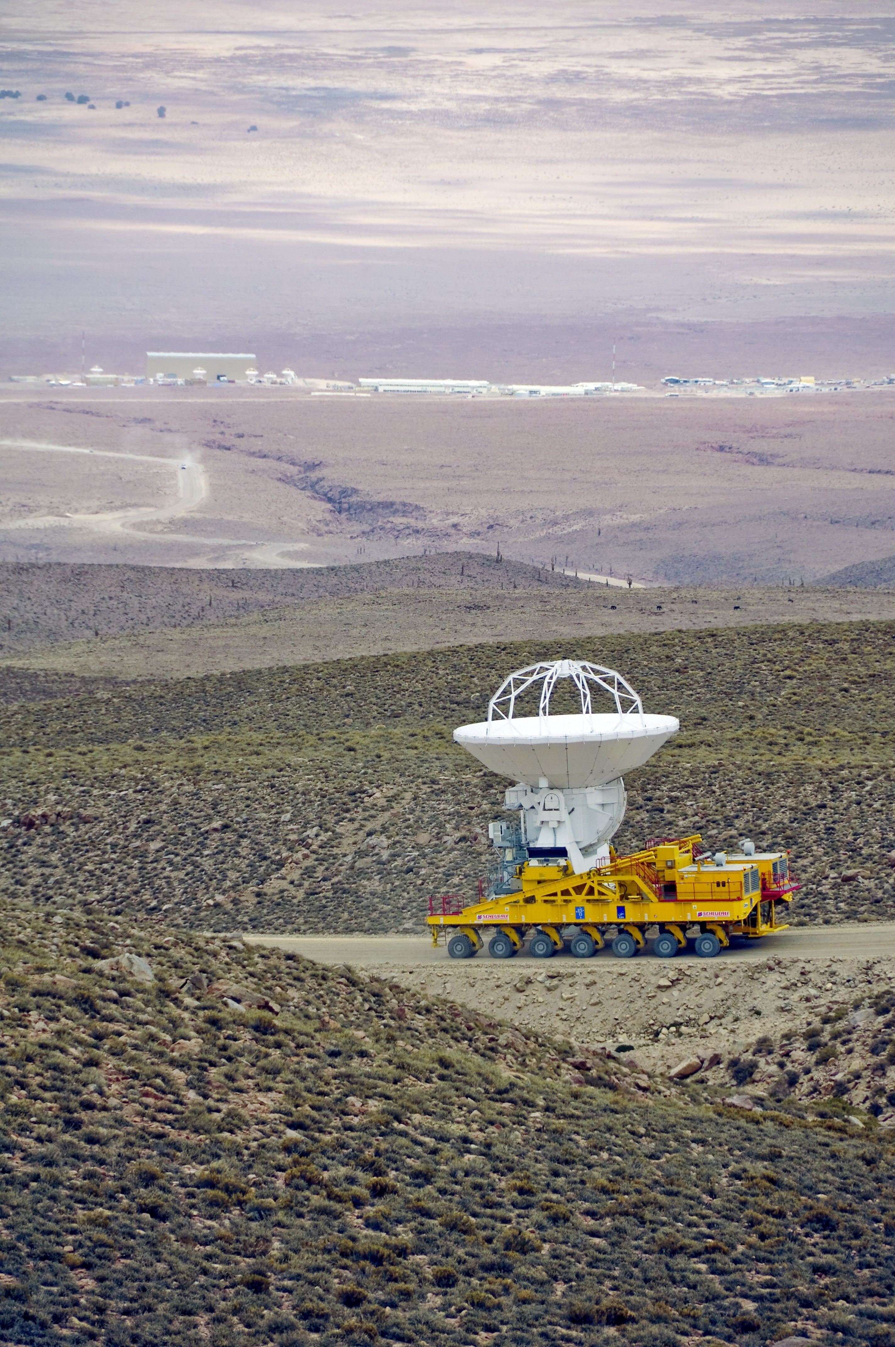 An ALMA antenna en route from the Operations Support Facility to the plateau of Chajnantor for the first time. The ALMA transporter vehicle carefully carries the state-of-the-art antenna, with a diameter of 12 metres and a weight of about 100 tons, on the 28 km journey to the Array Operations Site, which is at an altitude of 5000 m. The antenna is designed to withstand the harsh conditions at the high site, where the extremely dry and rarefied air is ideal for ALMA’s observations of the universe at millimetre- and sub-millimetre-wavelengths.